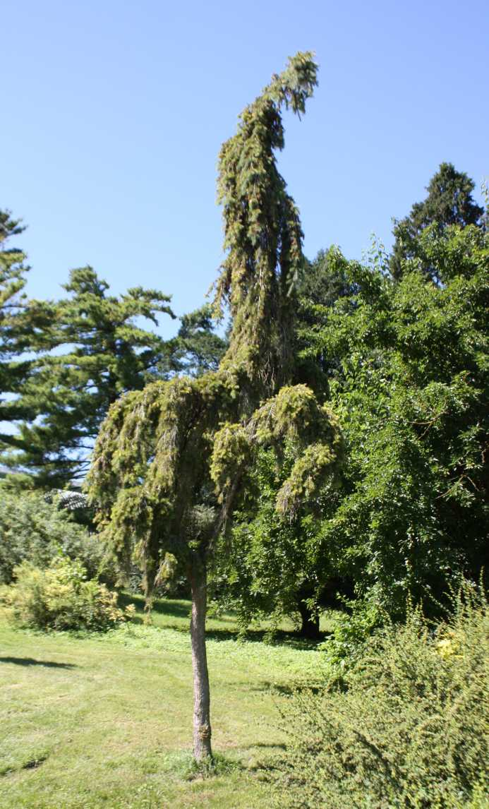 Lednice na Moravě, Czech republic, english park